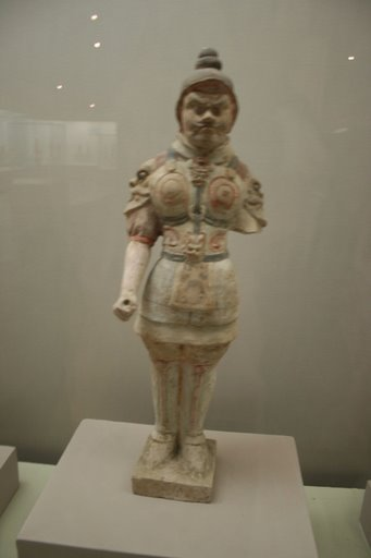 Chinese pottery officer in full armor (missing his left arm), from the Tang Dynasty (618-907 AD) of medieval China.